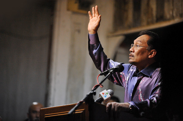 P36: Kubang Ikan, Kuala Terengganu. Anwar Ibrahim campaigning.